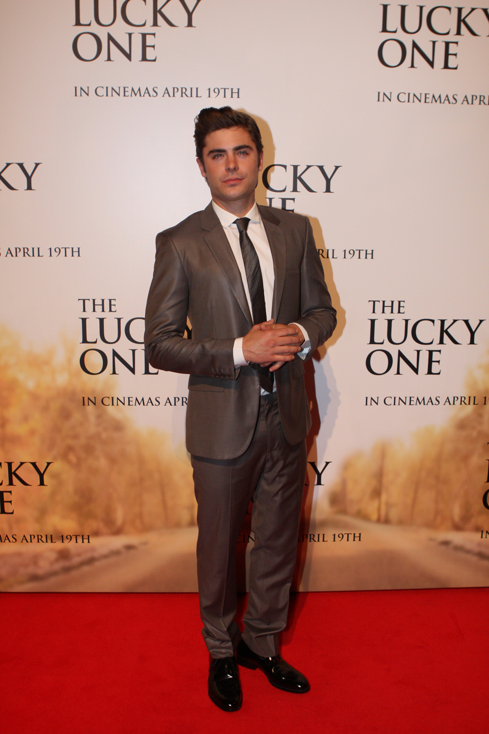 The Lucky One World Premiere At Bondi Juction, Sydney, Australia